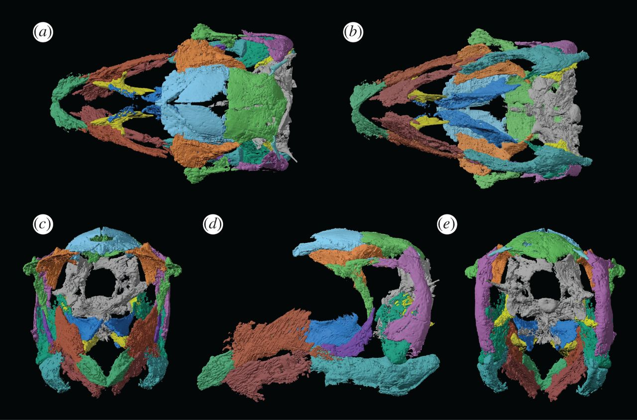 Three-dimensional reconstruction of the skull of Avicranium renestoi rendered in Maya 2016 in (a) dorsal, (b) ventral, (c) anterior, (d) left lateral and (e) posterior views. Elements are colour-coded as in main text.